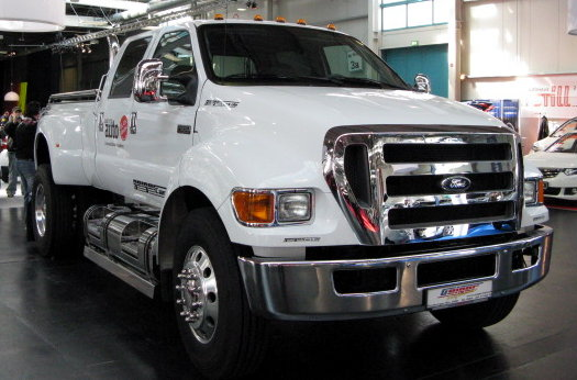 2008 Ford F 650 truck